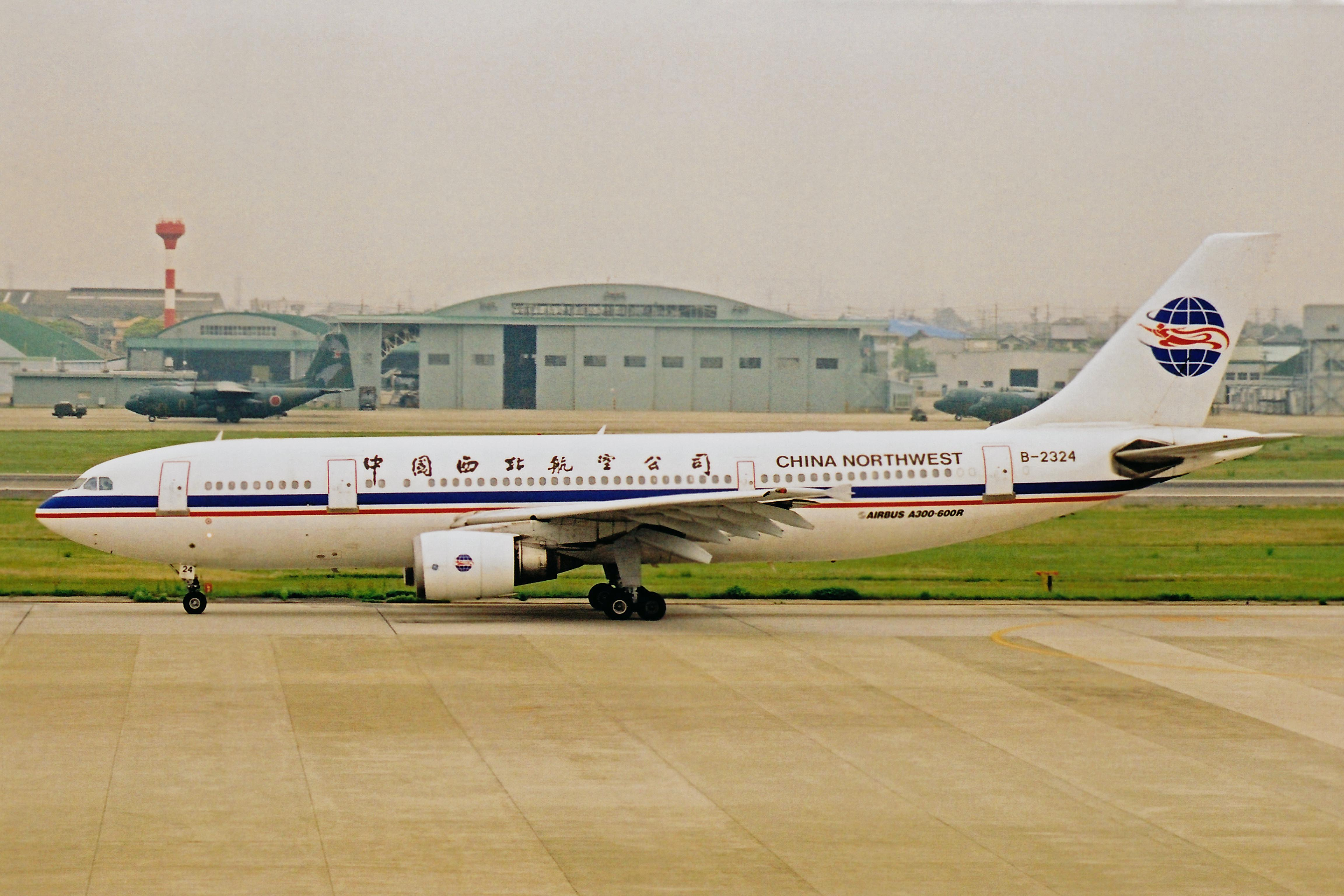 A picture of an airplane (name of it is on the file name).